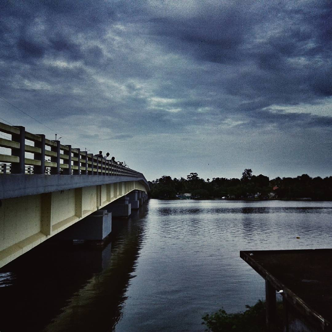 Monsoon view of Thuravoor Thycattussery bridge.